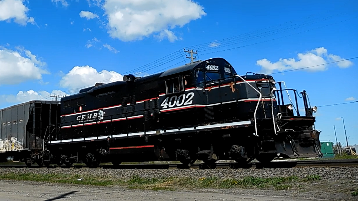 CEMR 4002 before being repainted.